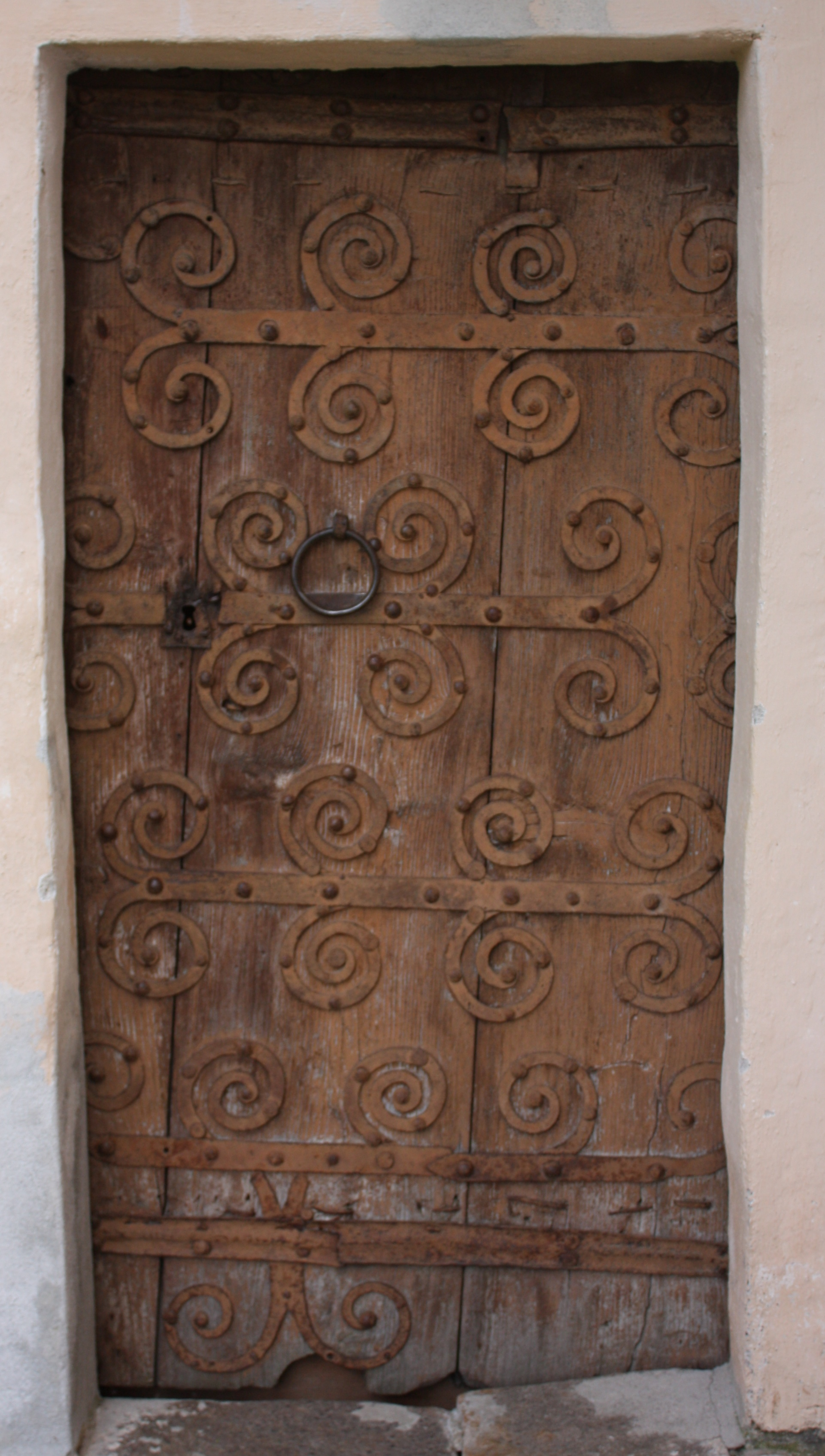 Church of St Johann am Pressen in the community of Hüttenberg - door